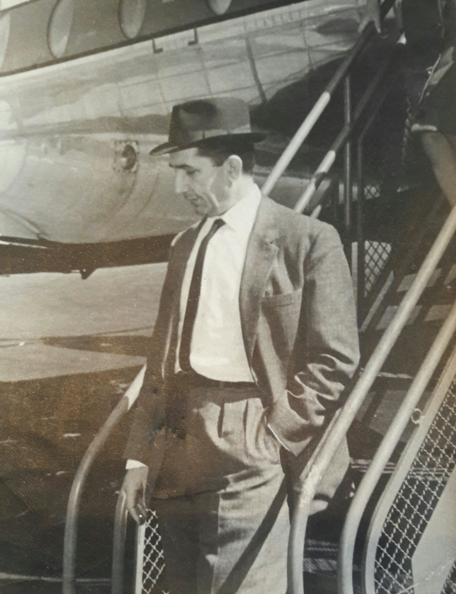 Mordechai Petcho in Córdoba, Argentina.